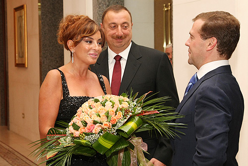 BAKU. With President of Azerbaijan Ilham Aliev and his wife Mehriban Aliev at the Heydar Aliev Foundation.